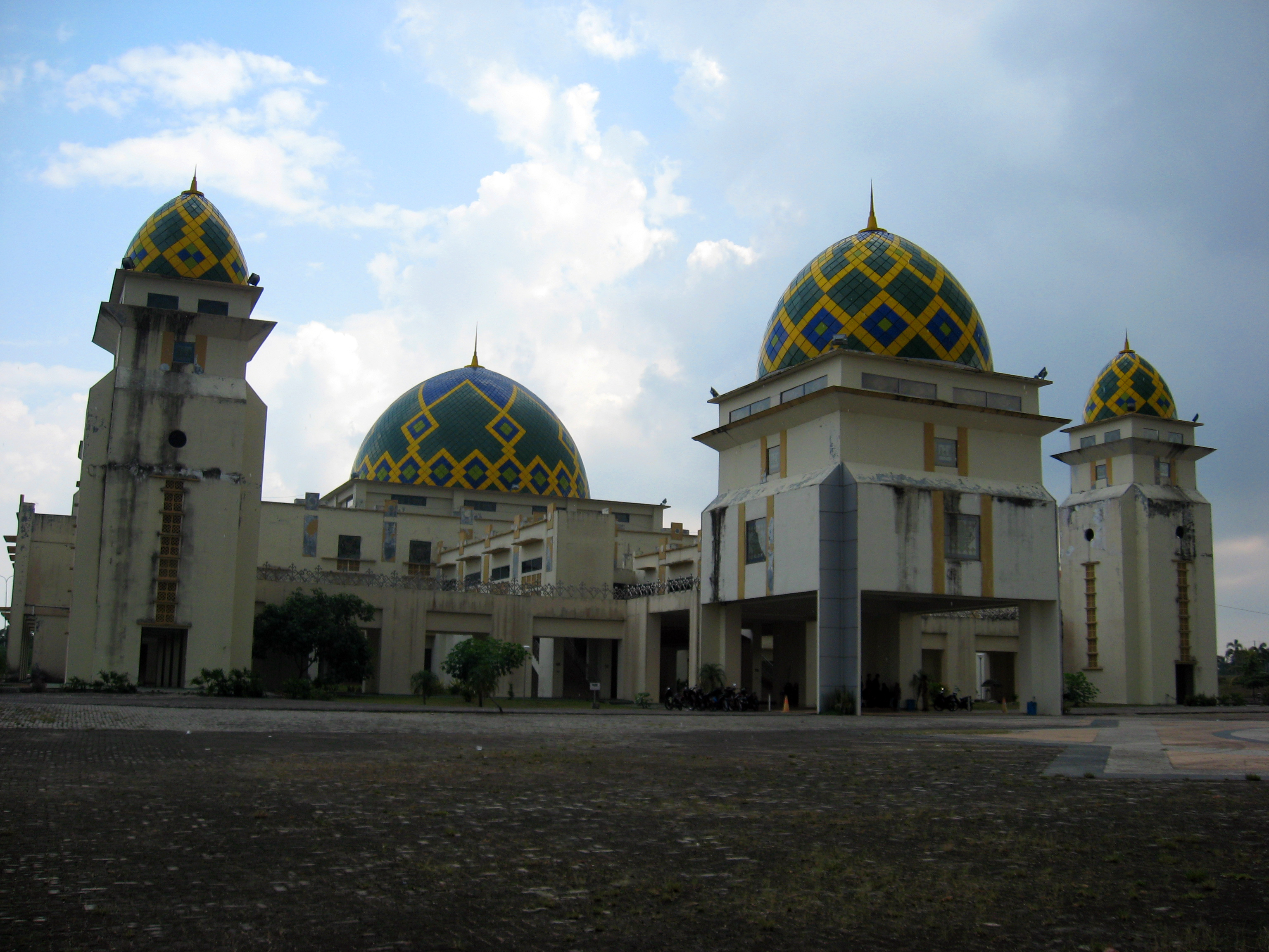 The Islamic Centre mosque and hajji dormitory in Sukadana, Indonesia